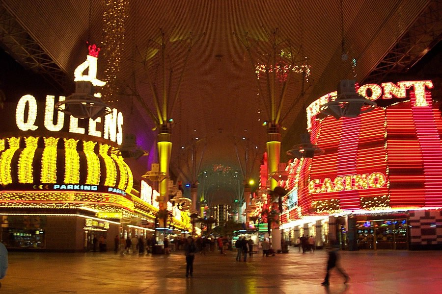 Fremont Street by night.